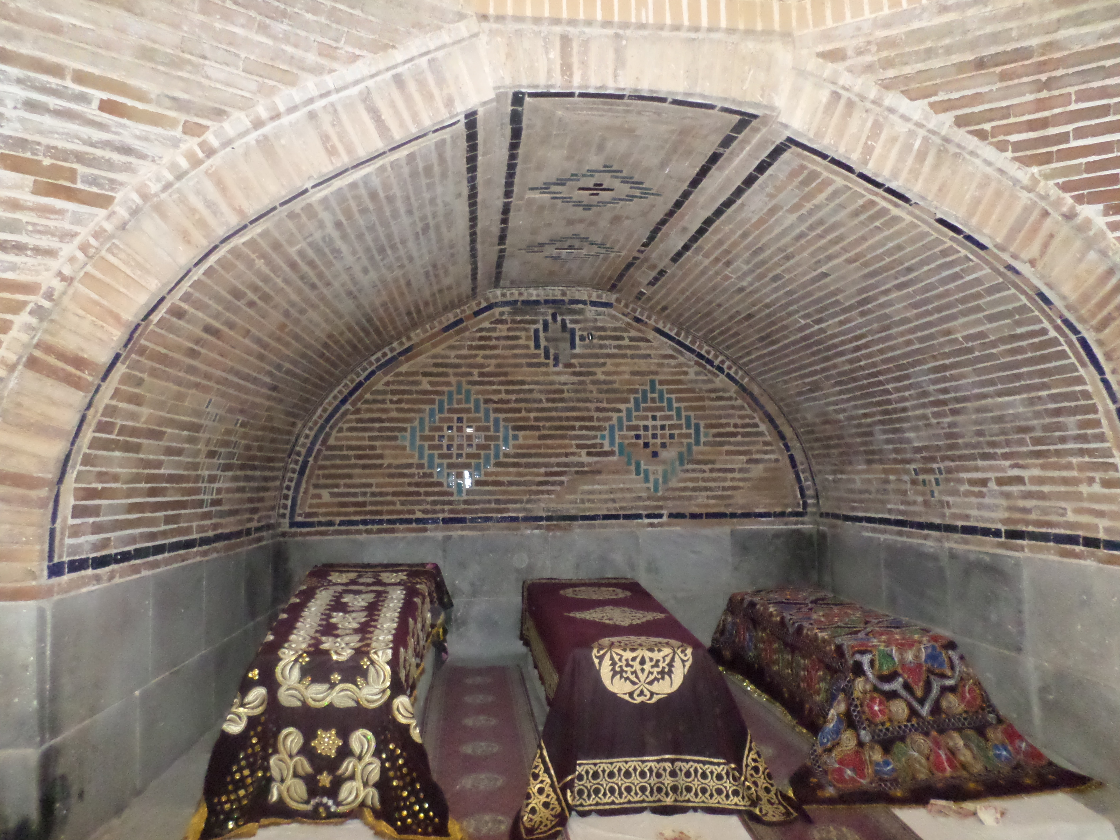 Mausoleum Bibi Khanum